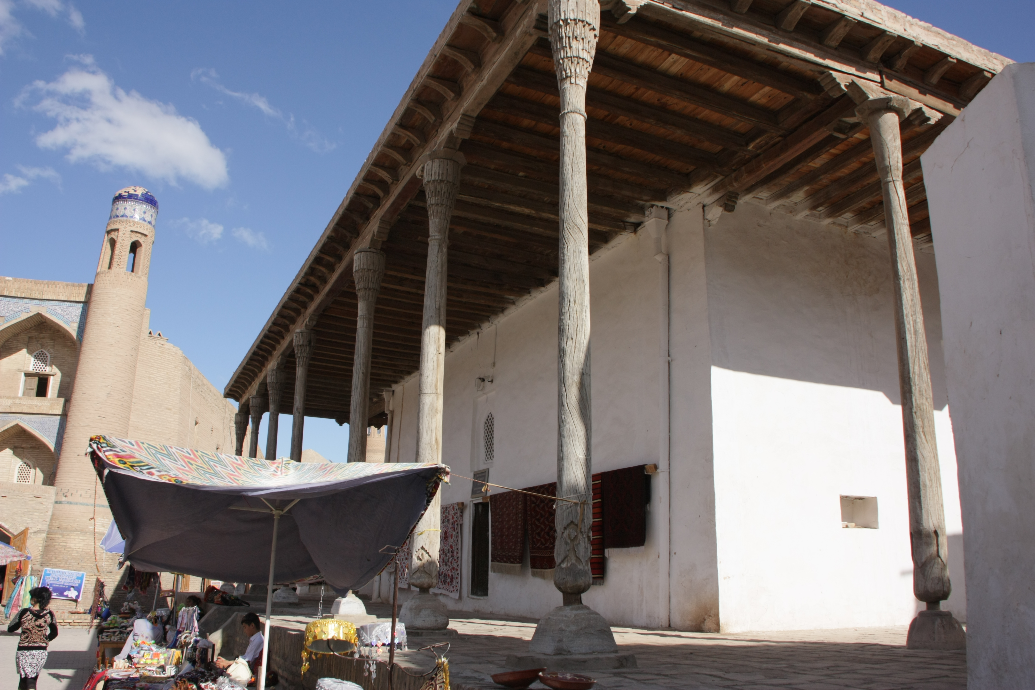 Ak mosque